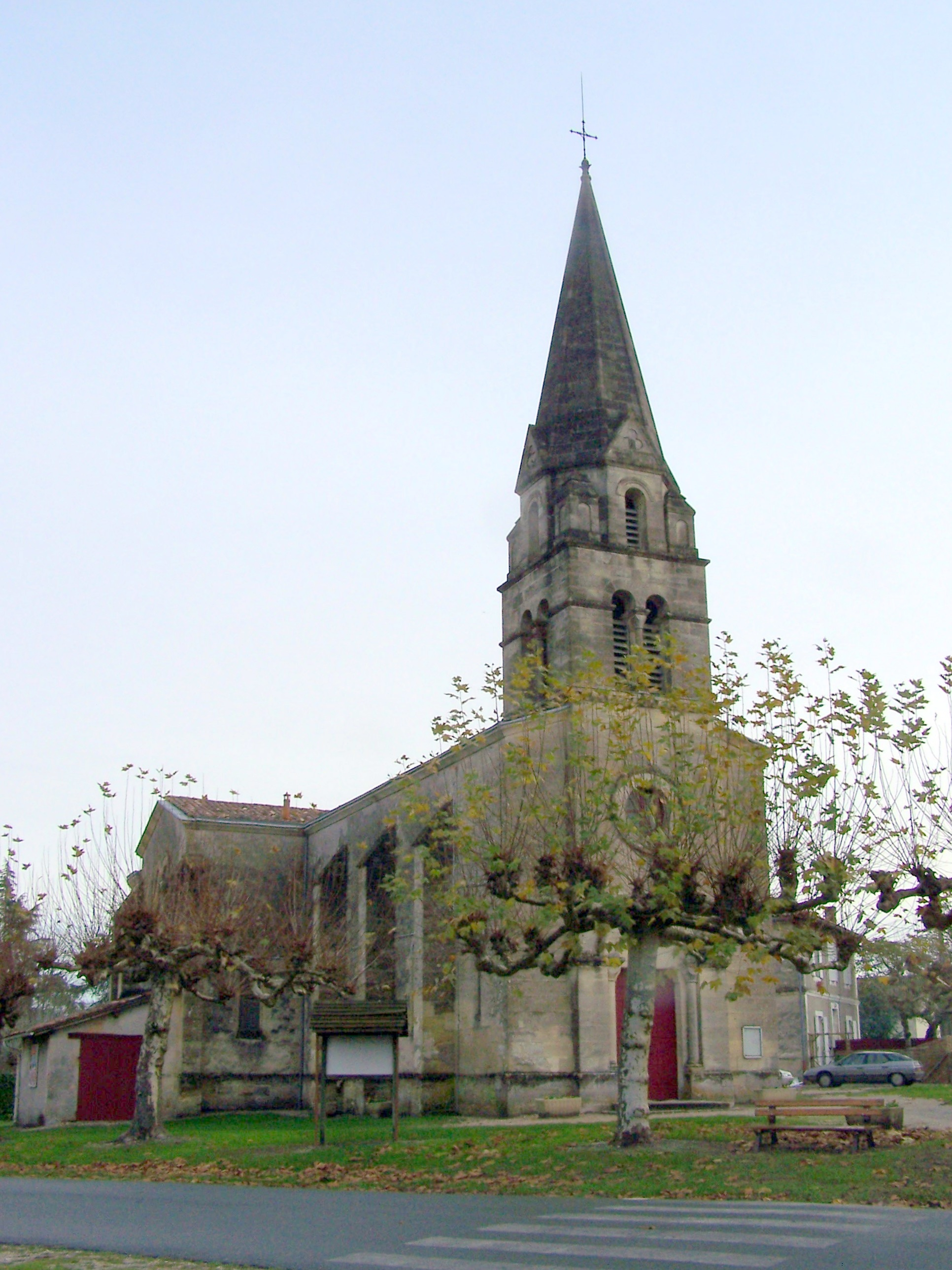 Church of Guillos (Gironde, France)